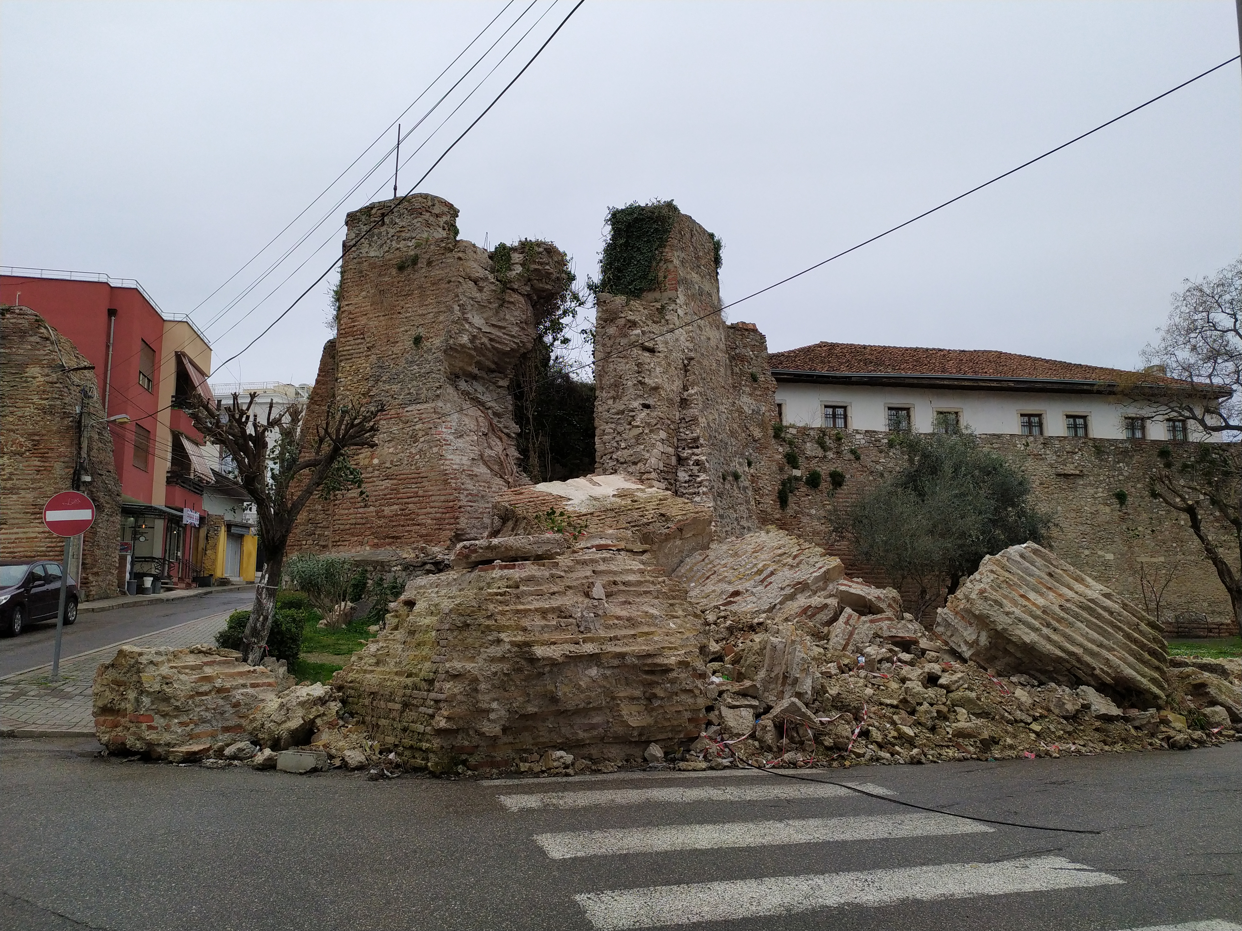 2019 earthquake damage of the Durres (Albania) castle walls